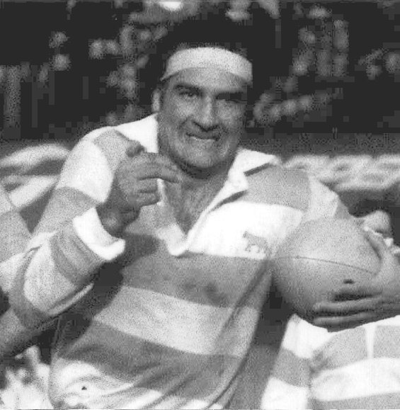 Argentine rugby player, Héctor Silva, who was caped for the national team from 1965 to 1980.